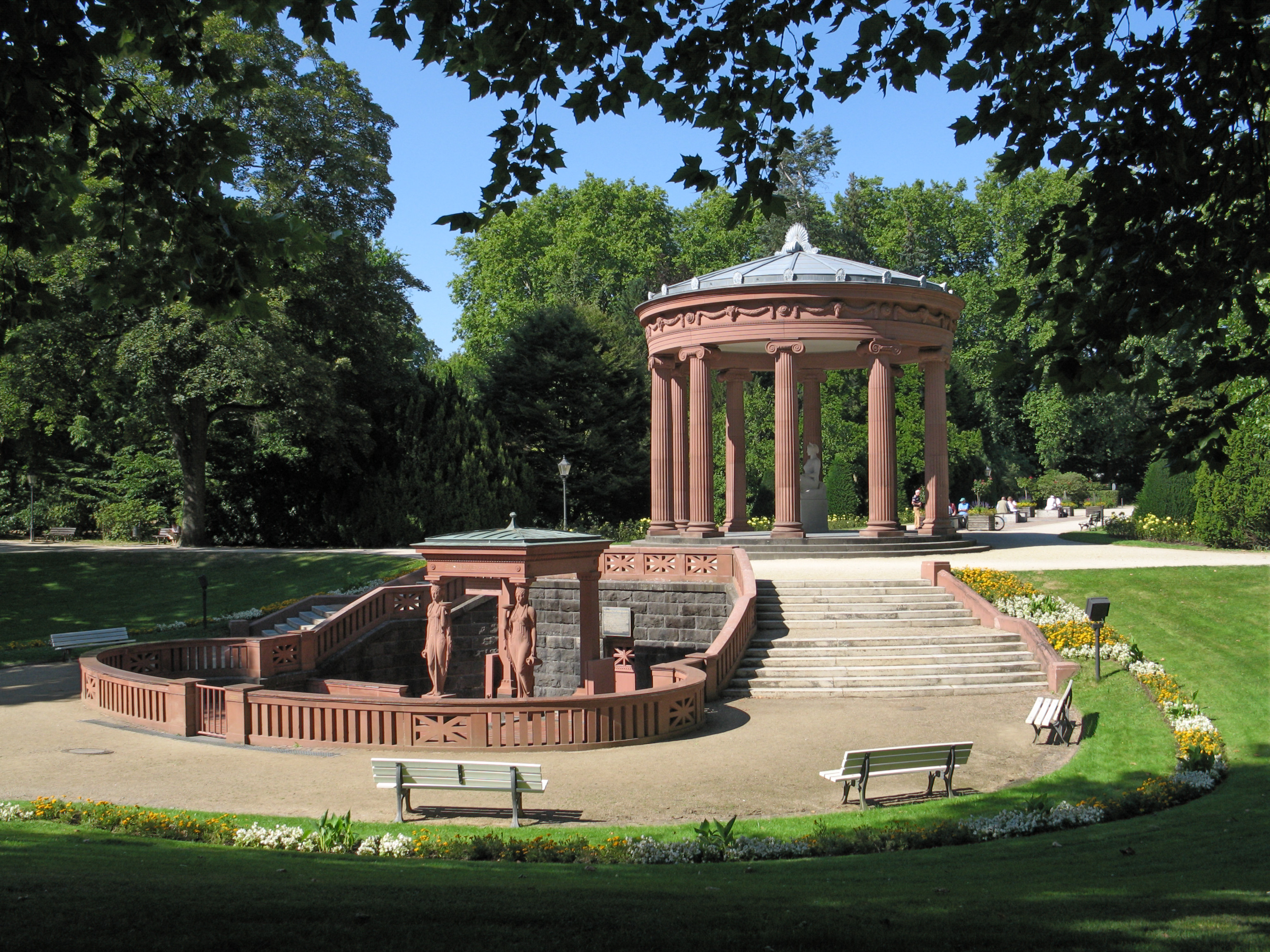 Elisabeth's Well at Bad Homburg vor der Höhe, Germany.